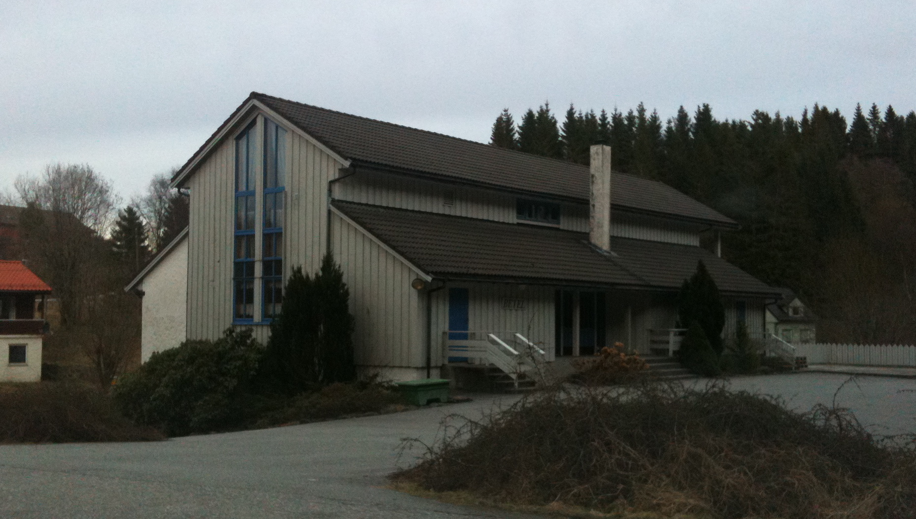 Betel Frekhaug in Meland municipality, Norway